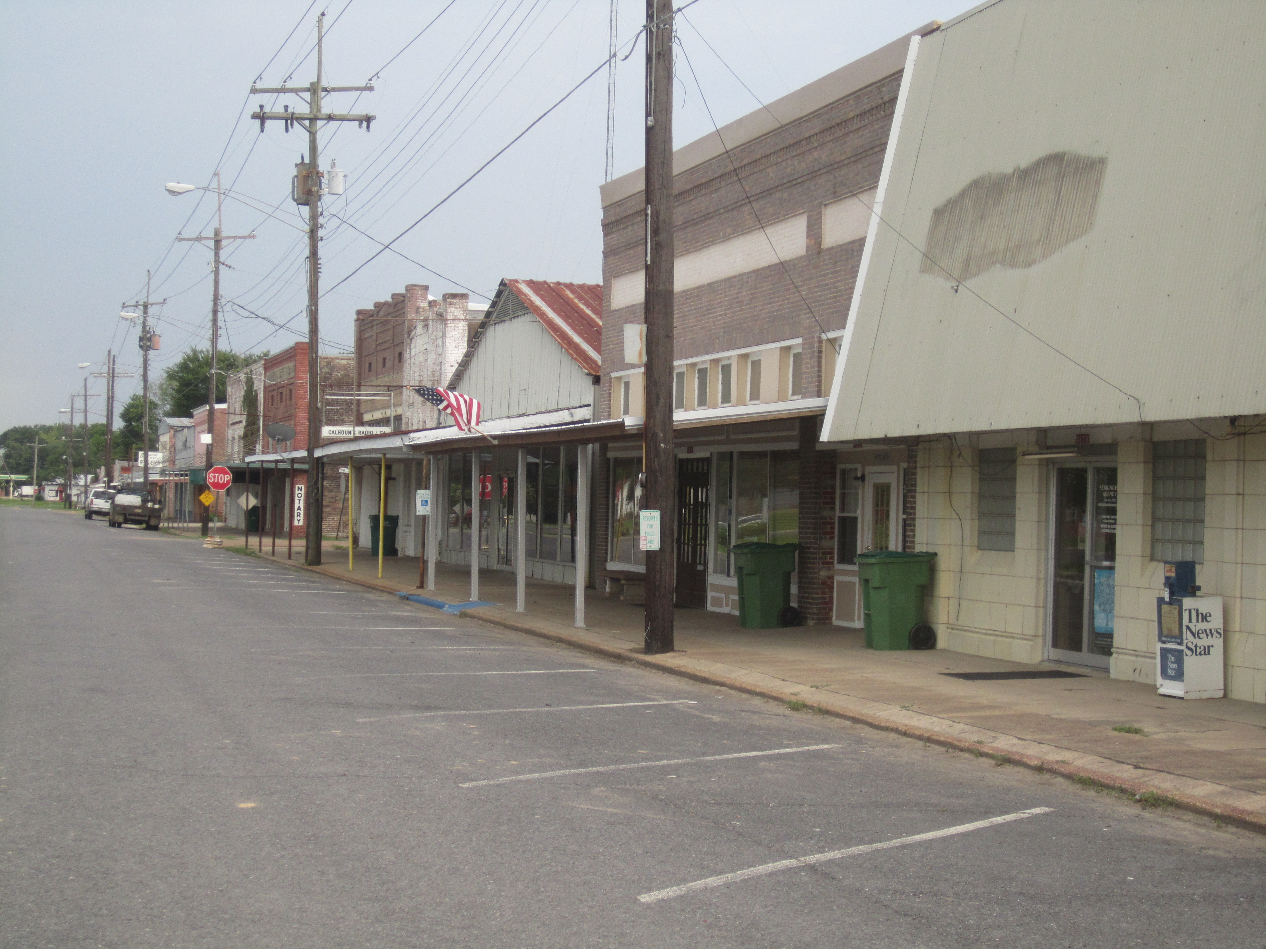 I took photo with Canon camera in Wisner, LA.